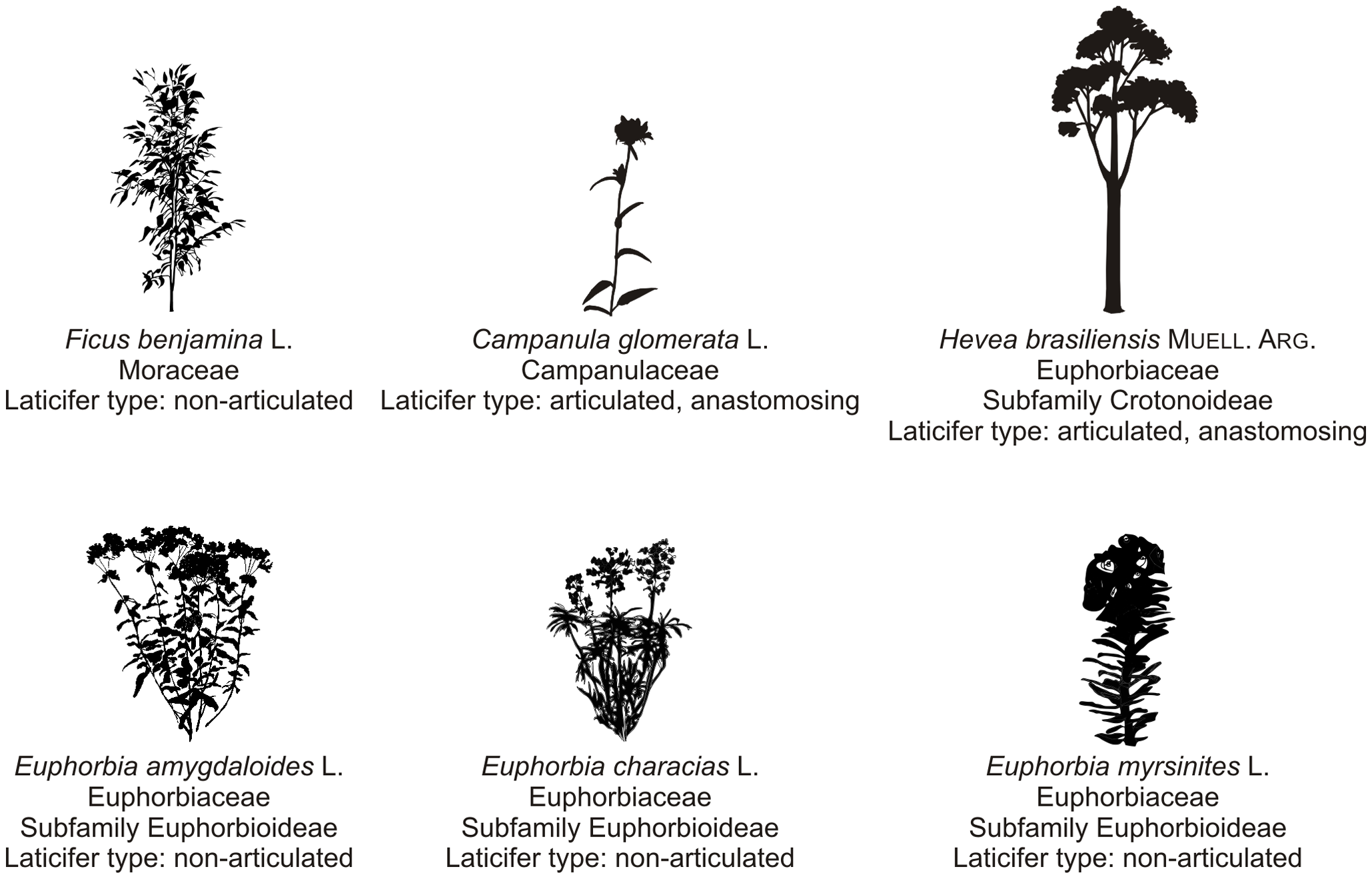 Laticifer types of plant species.